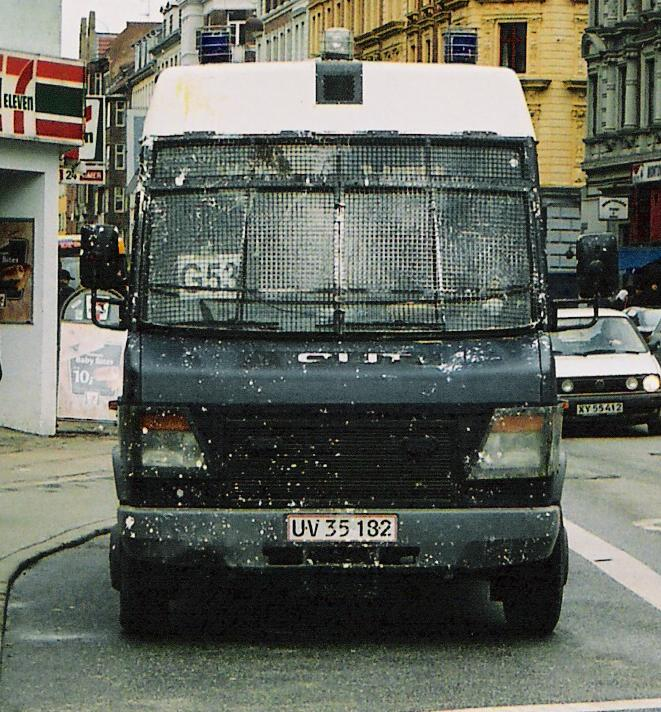 Hollændervogn is a riot control vehicle of the Danish police. Literally Dutchman's vehicle, because it's a Mercedes-Benz Vario reinforced in the Netherlands to sustain missiles from rioters. Picture taken in the vicinity of the "Ungdomshuset" on "Nørrebro", Copenhagen, Denmark. The small dots are paint from yesterday's riots.